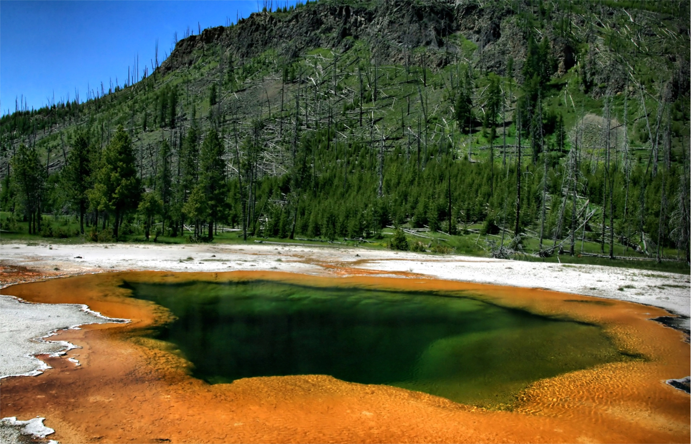 Emerald Pool in Yellowstone National Park